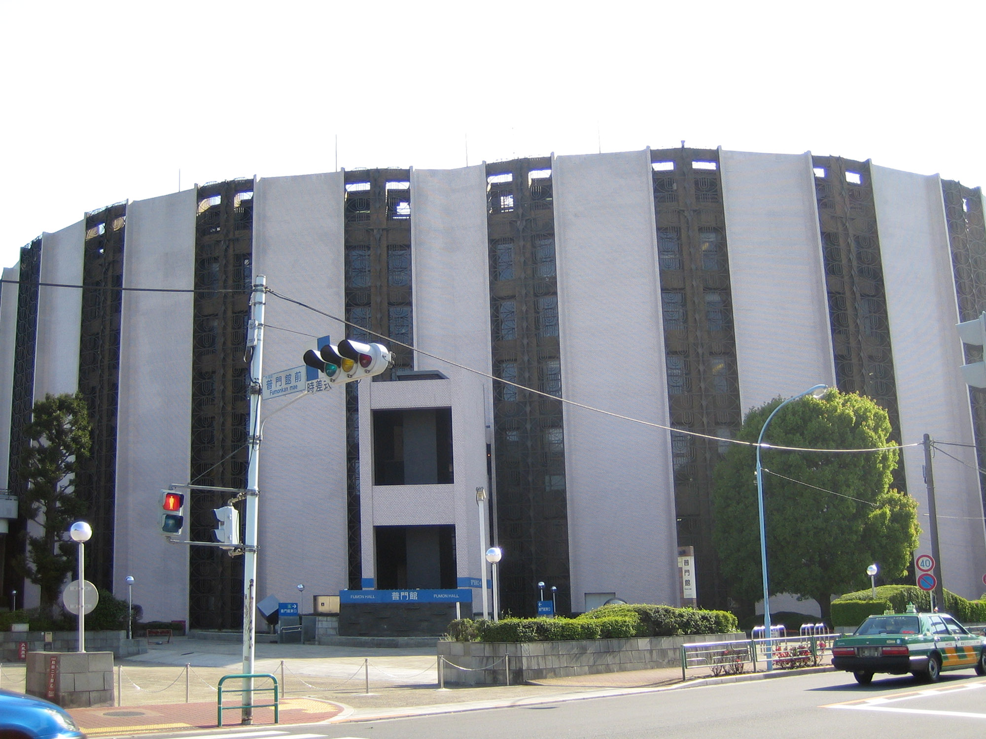 Fumon Hall (普門館 Fumonkan) of Rissho Kosei-kai (立正佼成会), in Suginami, Tokyo, Japan